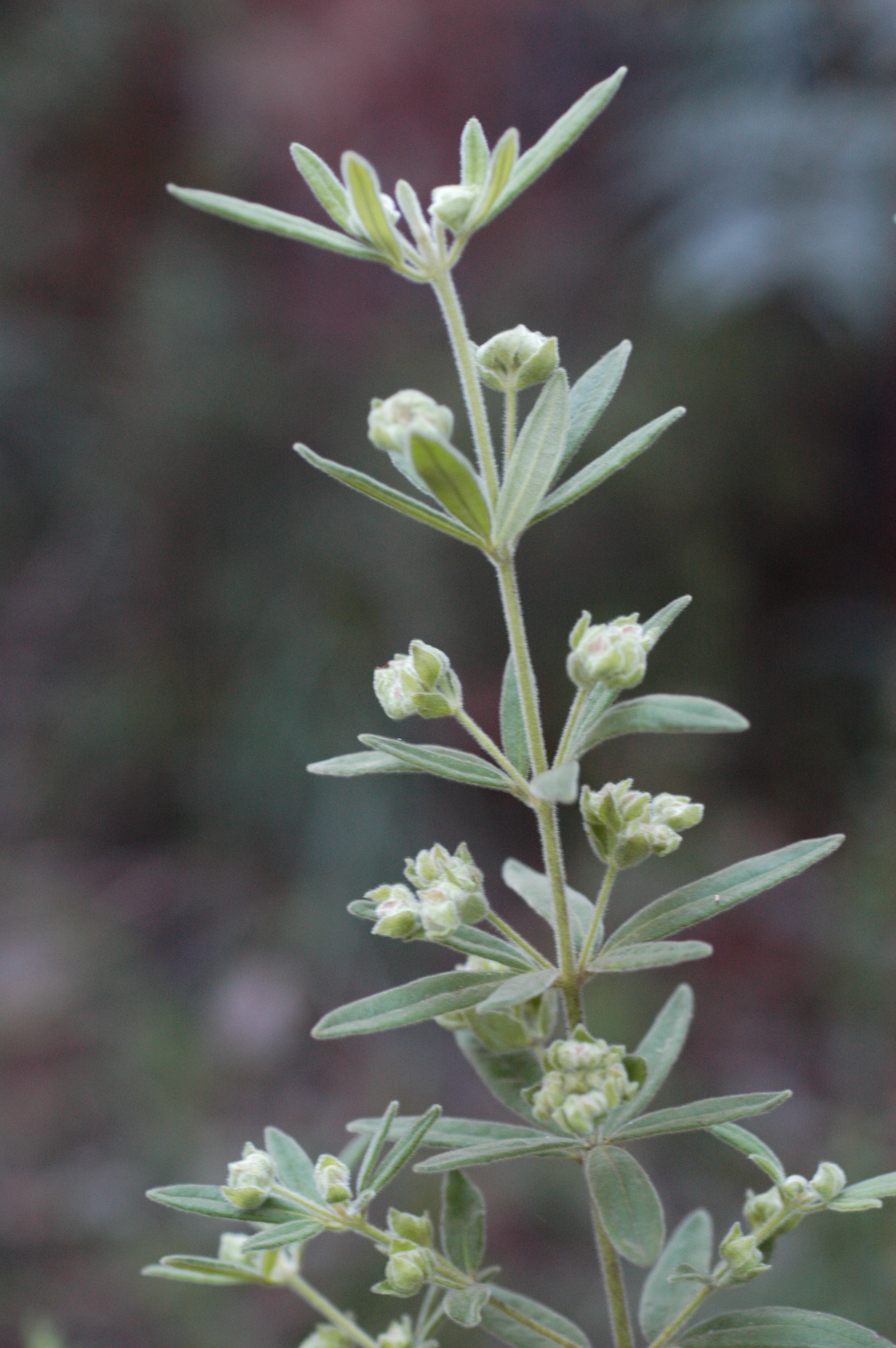 Zieria involucrata, Velvet Star-bush - Yengo National Park